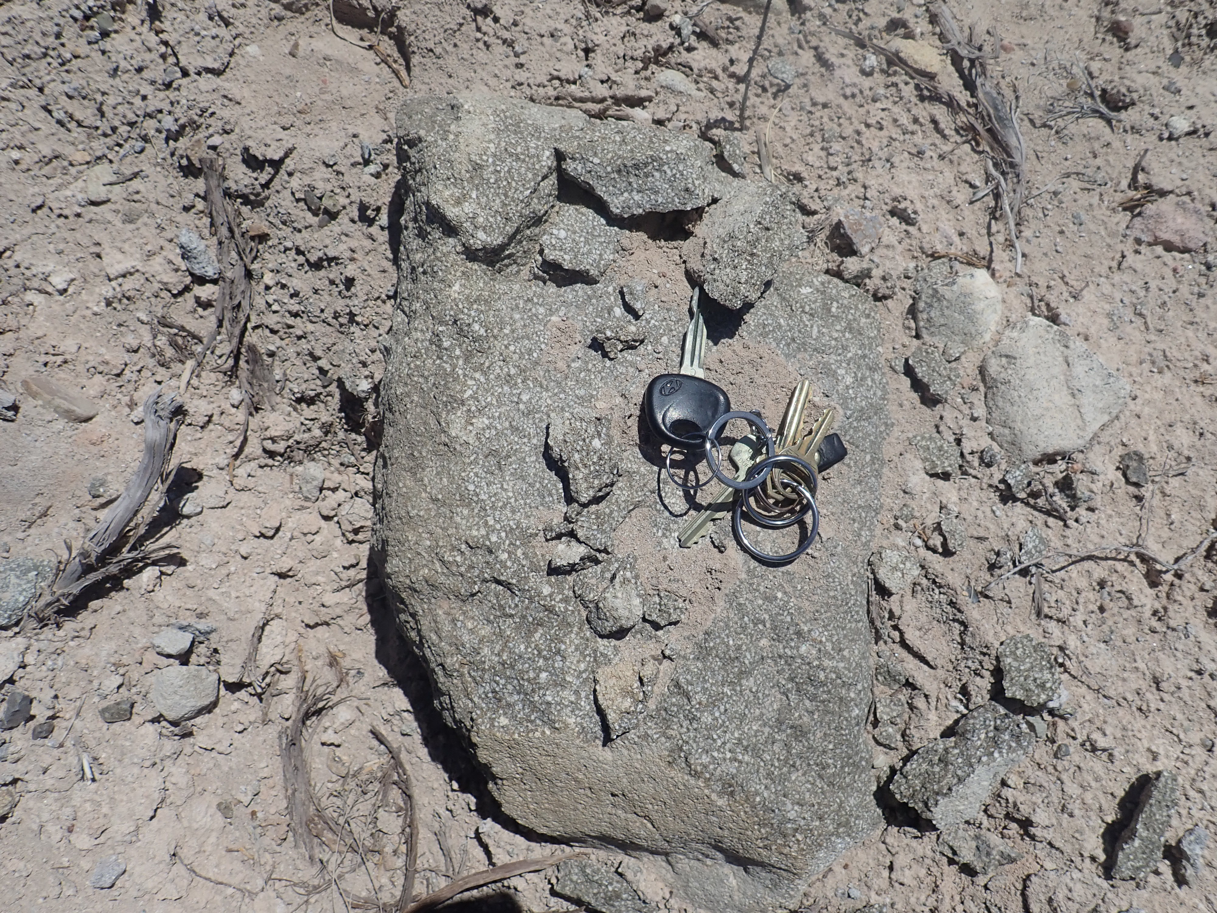 This image shows a sample of monzonite from the Ortiz porphry belt, New Mexico. USA. This belt consists of a large number of laccoliths that intruded Triassic and Cretaceous sedimentary beds from 33.2 to 36.2 million years ago. In some cases the magma broke through to the surface, emplacing the Espinaso Formation in nearby basins.